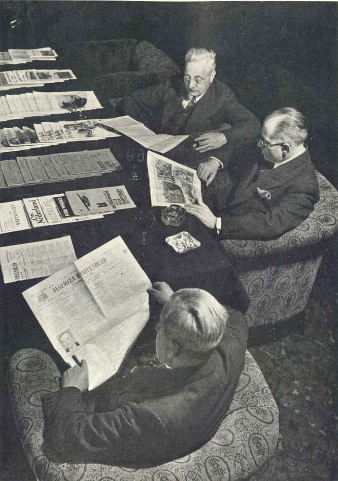 Jan van Dijk, Advertisement for Algemeen Handelsblad